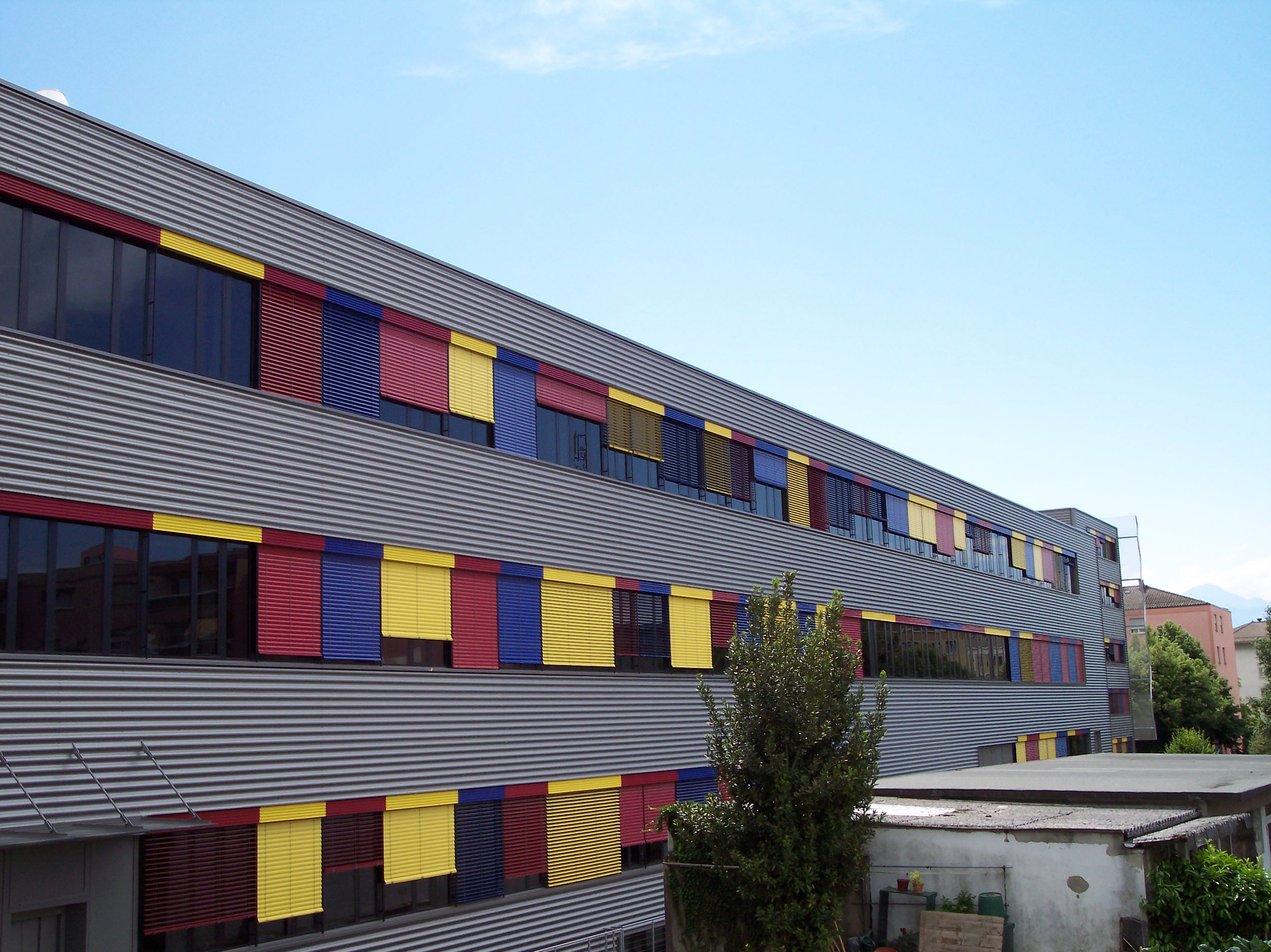 View from the south side of the University of art and design Lausanne